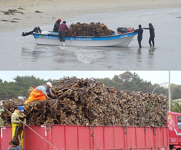 Cochayuyo, a kelp that is the nursery for many fish species, is now mass harvested for export to the Orient. Los Molles, Chile. In context at